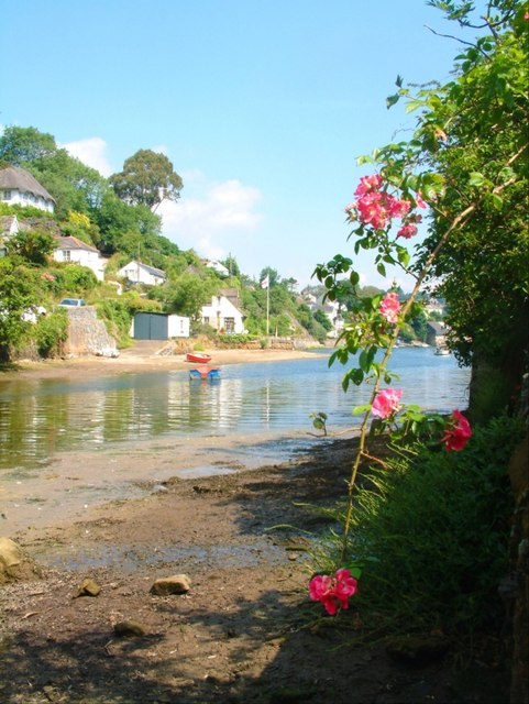 A summer morning in Helford Whitewashed cottages slope gently down to the Helford River on a summer morning in May 2005.